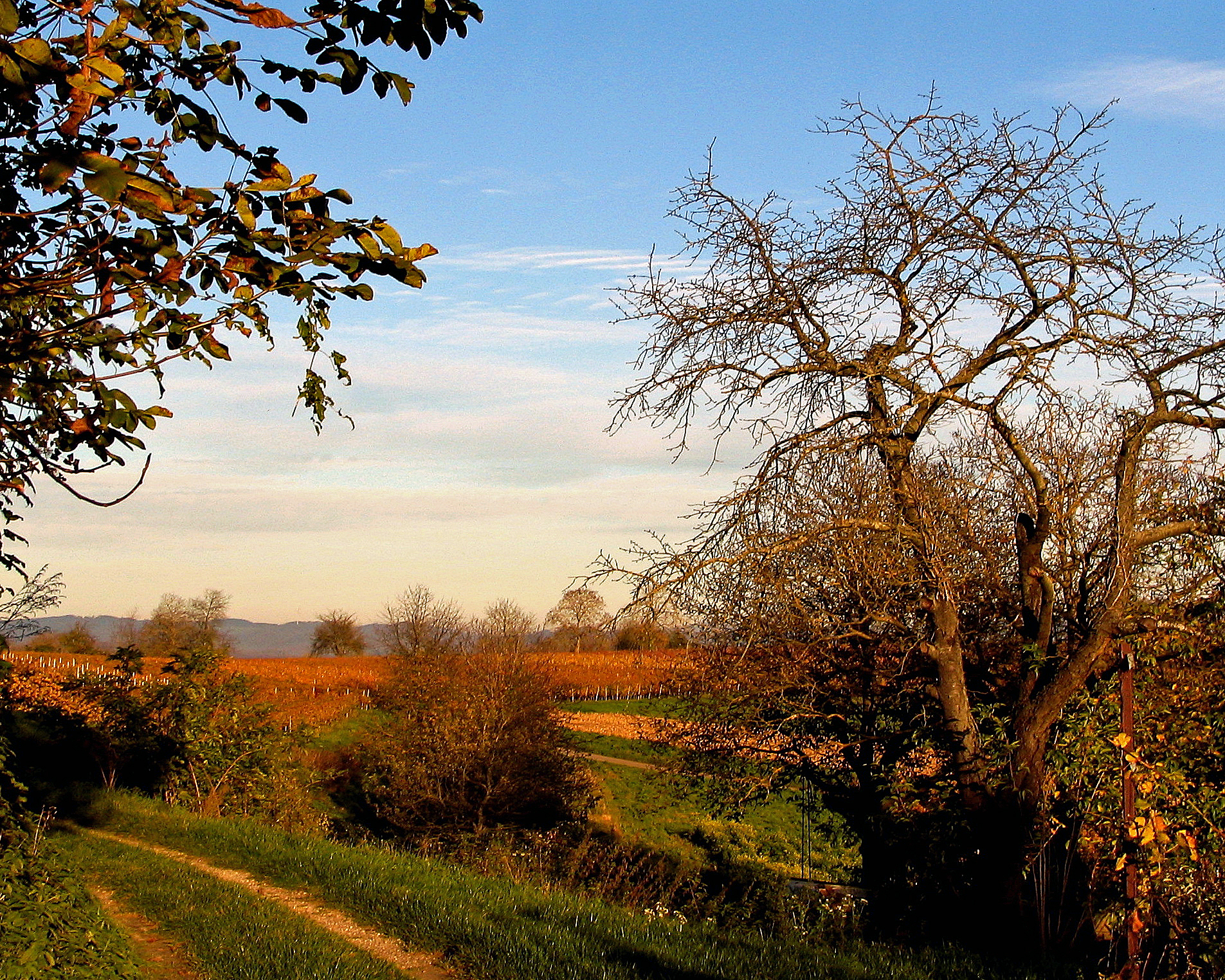 autumn Landscape